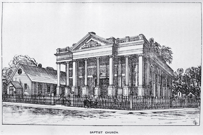 By the late 1870s the Hereford Street church was no longer adequate for the congregation. A half-acre section on the corner of Oxford Terrace and Madras Street was bought in Oct. 1878 for £1,325. A competition with a prize of £25 for the design of a new church to seat 600 people at a cost of £2,500 was held in 1881. Eight designs were submitted and the prize went to a local architect, Mr E.J. Saunders. Tenders were called and prices for the work ranged from £3,956 to £5,337. All were considered too high and the plans were pruned, cutting out the side galleries and some other features. Tenders were again called and in Sept. 1881 the lowest tender of £3,130 from Morey and McHale was accepted. The foundation stone was laid on 14 Oct. 1881 and the building opened on 9 July 1882. The wooden building on the left is the old Hereford Street church built in 1868 for £272. It was moved to Oxford Terrace in May 1879 and re-opened on 29 June 1879. It was used until it was destroyed by fire in 1903.